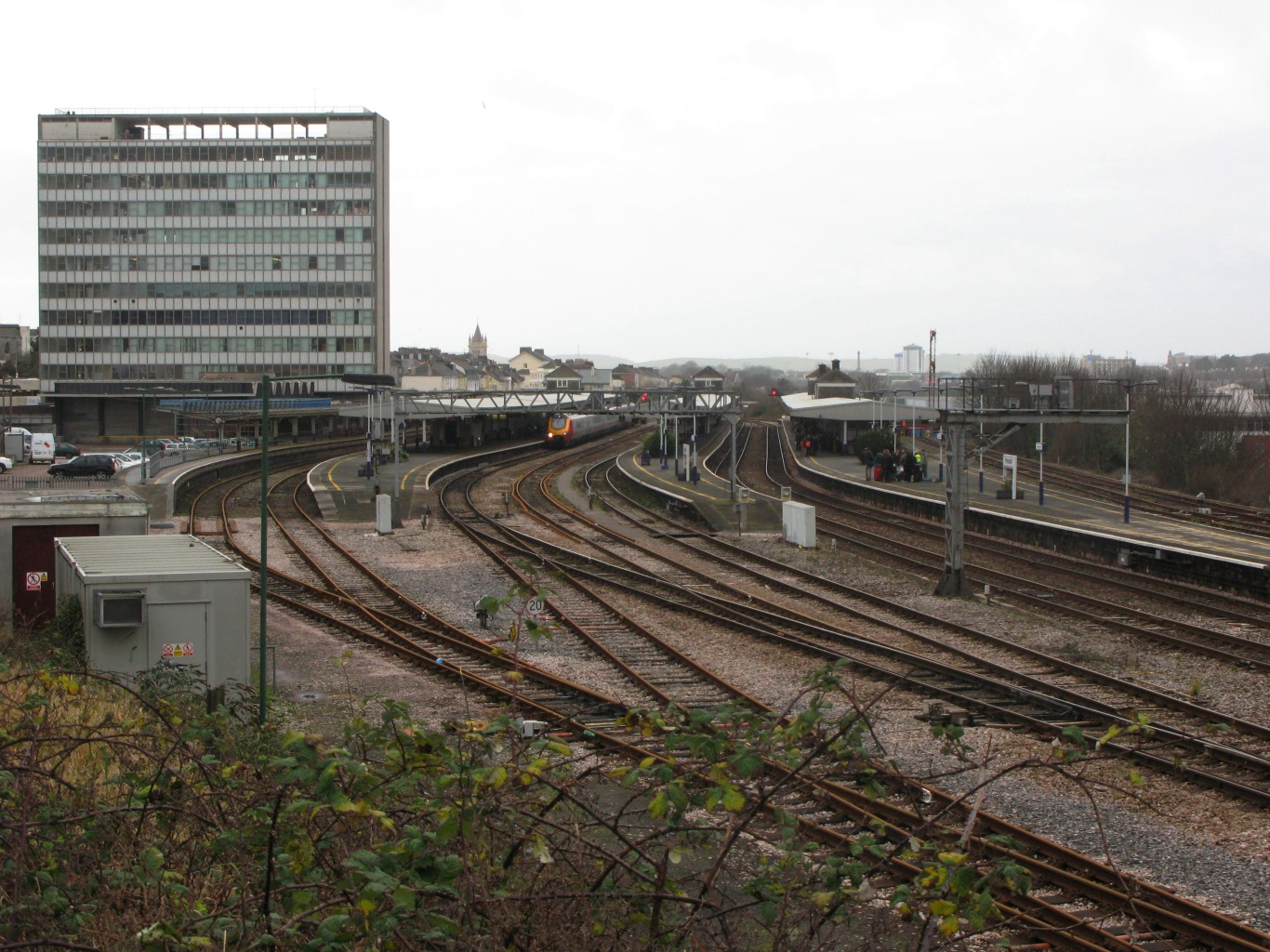 Plymouth railway station viewed from the east. CrossCountry Voyager 221128 stands in Platform 4 with a train to the North.